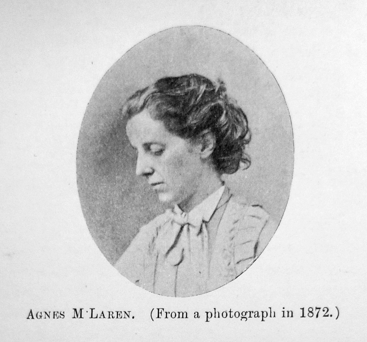 1871 and 1870 photos of suffragettes Agnes McLaren and Jane Taylour